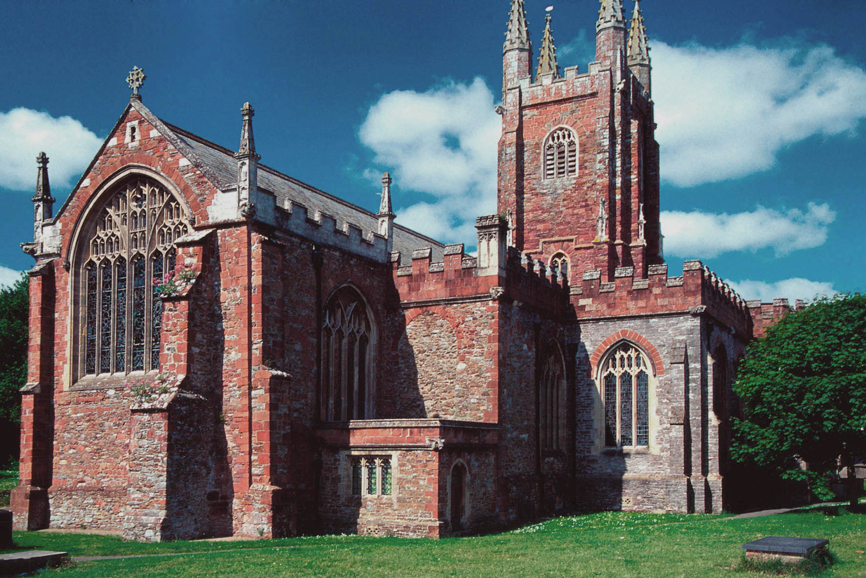 St Mary's parish church, Totnes, Devon, seen from the east